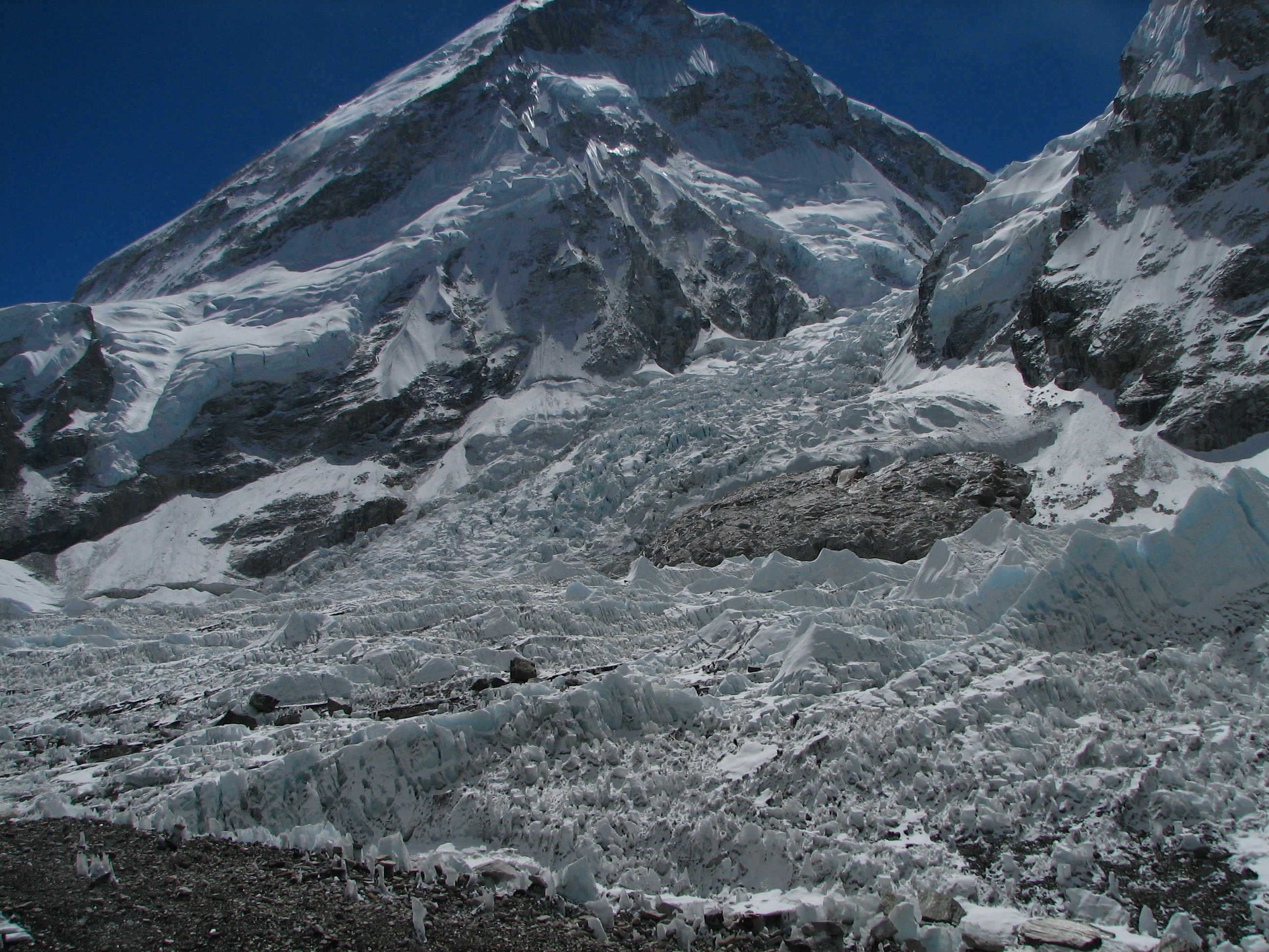 The dramatic ice of the Khumbu icefall above Everest Base Camp